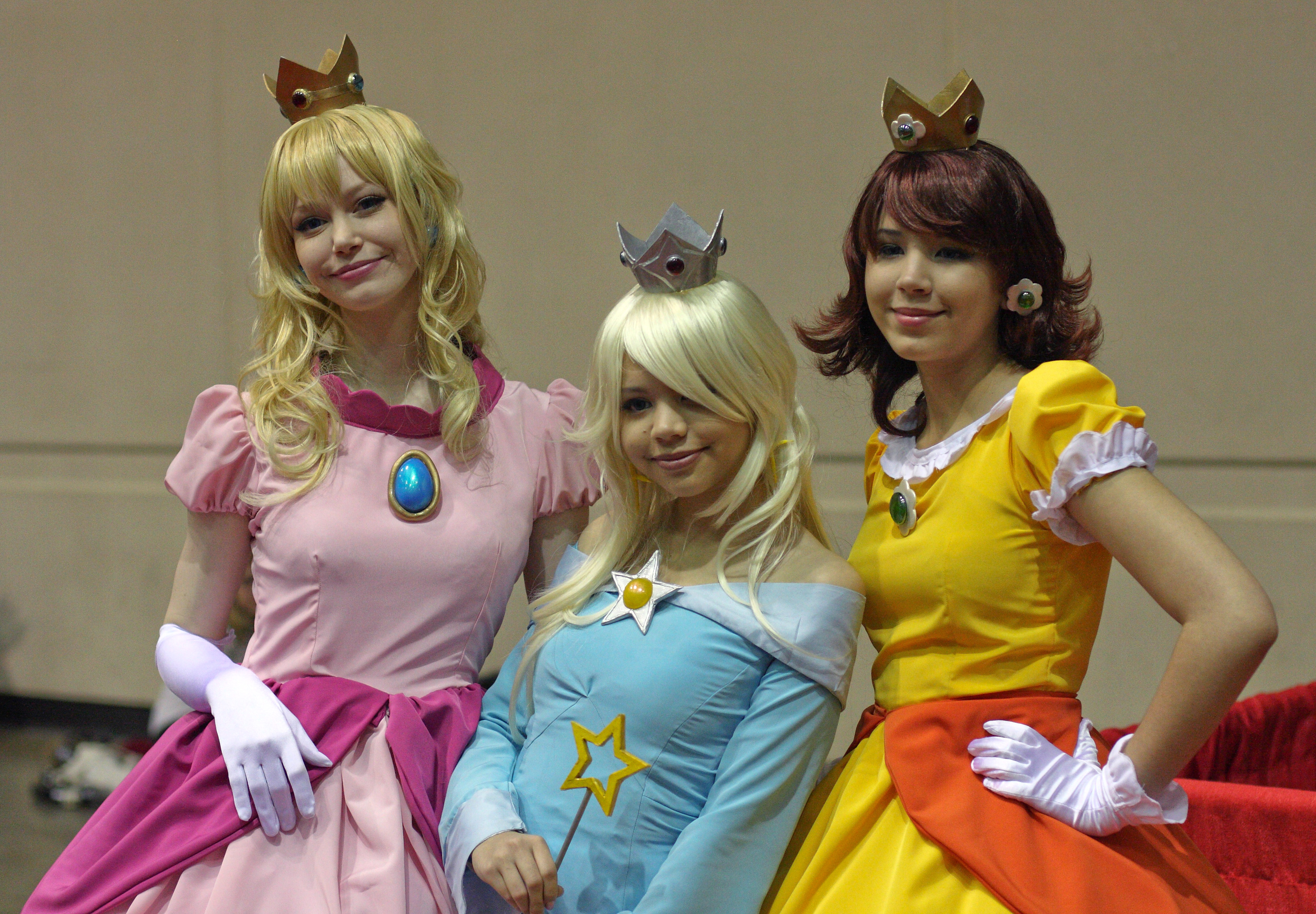 Three Princesses found at MegaCon 2010 in Orlando, Florida. Cosplay at MegaCon 2010.